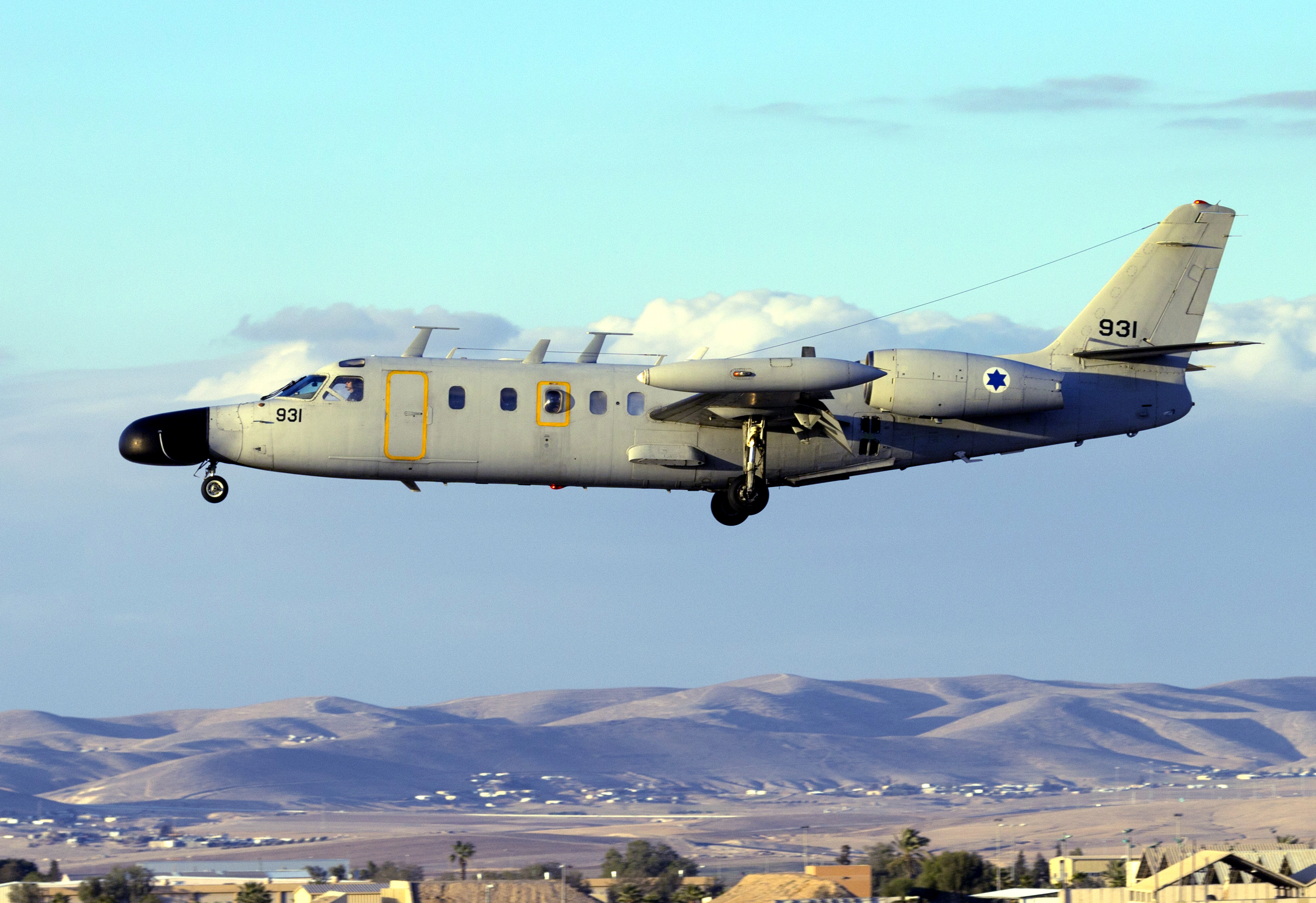 IAF 4X-JYO(931) at the Negev Region Israel